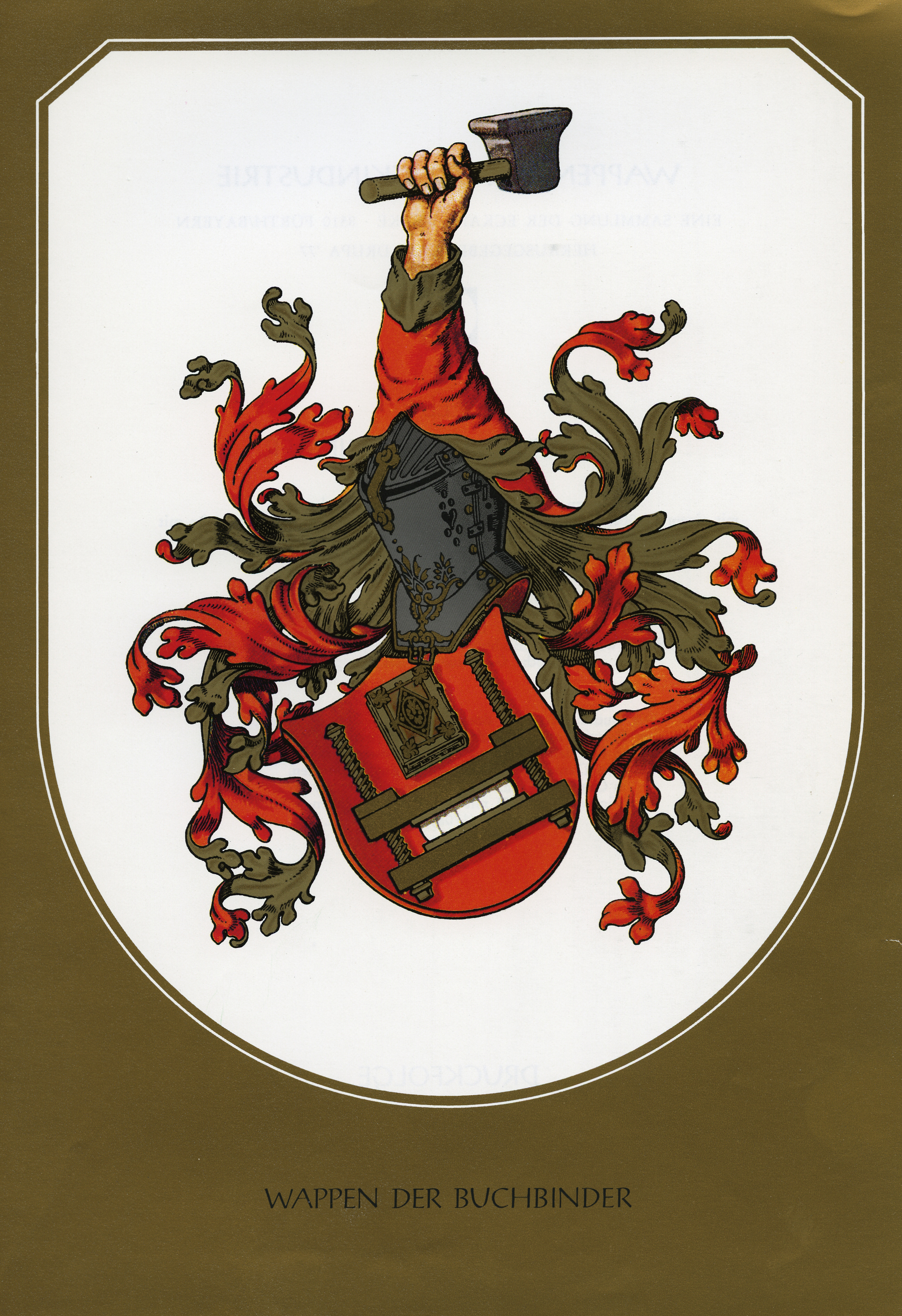 Coat of arms Bookbinder